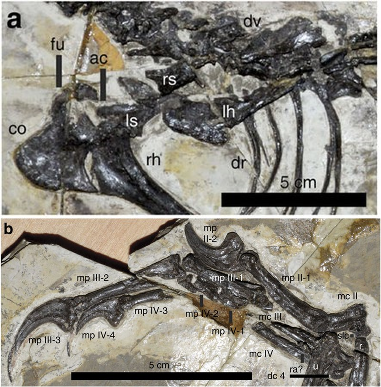 Figure 4: Non-vertebral postcranial skeleton of Jianianhualong tengi holotype DLXH 1218. (a) Shoulder girdle, (b) right manus, (c) pelvis and (d) left pes. Scale bar, 5 cm except in d, where it is 1 cm instead. ac, acromial process; acd, anterior caudal vertebrae; co, coracoid; dc 4, distal carpal 4; dr, dorsal ribs; dt 3, distal tarsal 3; dt 4, distal tarsal 4; dv, dorsal vertebrae; fu, furcula; ga; gastralia; lfe, left femur; lh, left humerus; li, left ilium; lis, left ischium; lpu, left pubis; ls, left scapula; mc II to IV, metacarpals II to IV; mp II-1 to II-2, manual phalanges II-1 to II-2; mp III-1 to III-3, manual phalanges III-1 to III-3; mp IV-1 to IV-4, manual phalanges IV-1 to IV-4; mt I to V, metatarsals I to V; pp I-1 to I-2, pedal phalanges I-1 to I-2; pdis, dorsal posterior process of ischium; pvis; ventral posterior process of ischium; r, radius; ra?, radialae?; rfe, right femur; rh, right humerus; ri, right ilium; ris, right ischium; rpu, right pubis; rs, right scapula; slc, semi-lunate carpal; u, ulna.